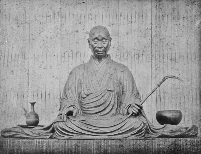 Eison by Zenshun, Saidaiji, Nara, Nara, Japan